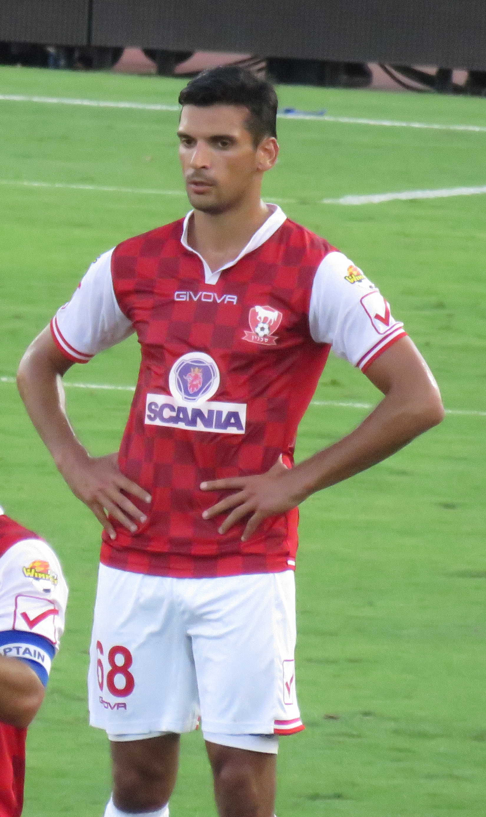 Maccabi Tel Aviv VS. Bnei Sakhnin 22/08/2015